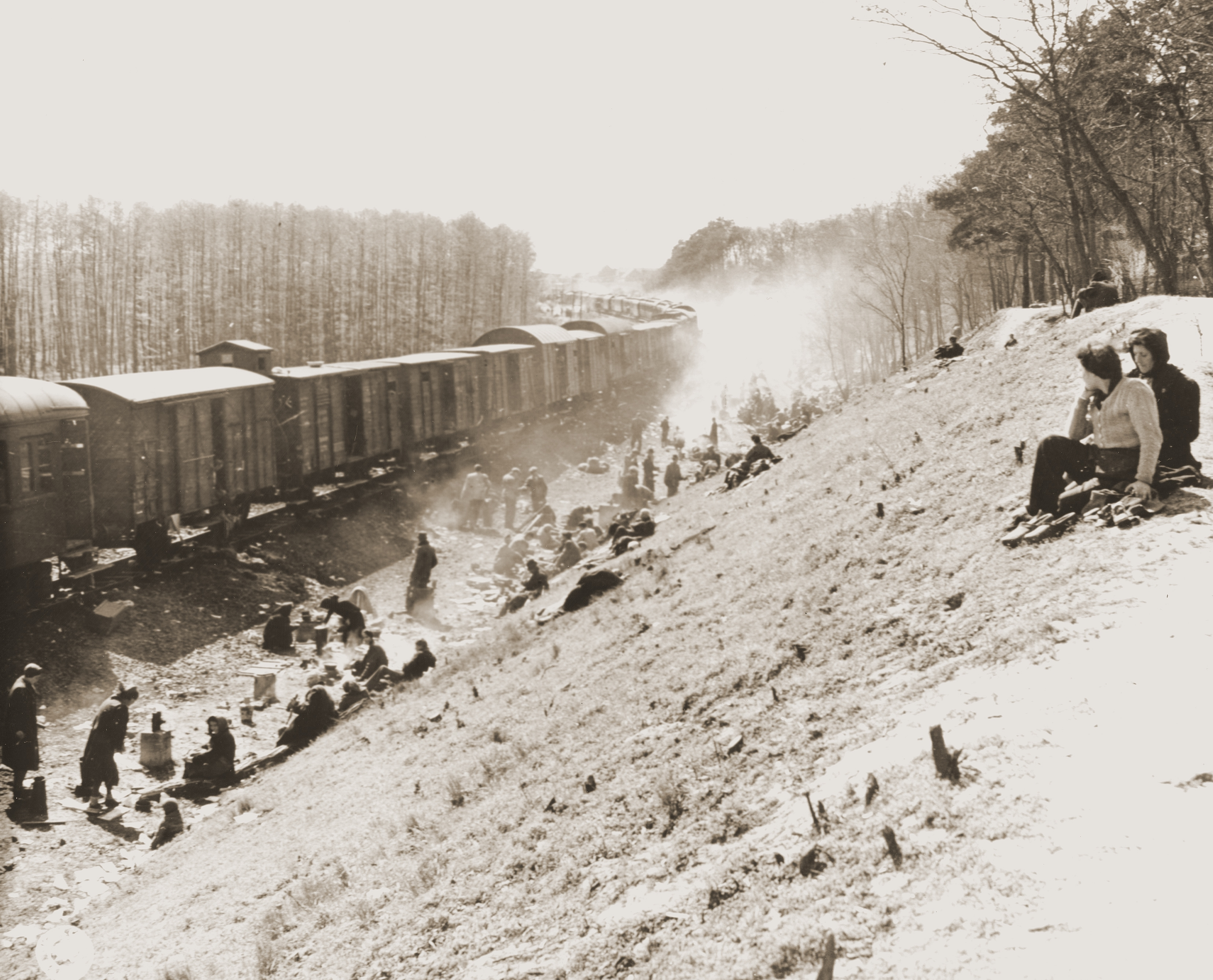 One of the trains that left Bergen-Belsen for Theresienstadt in early April, liberated by American forces